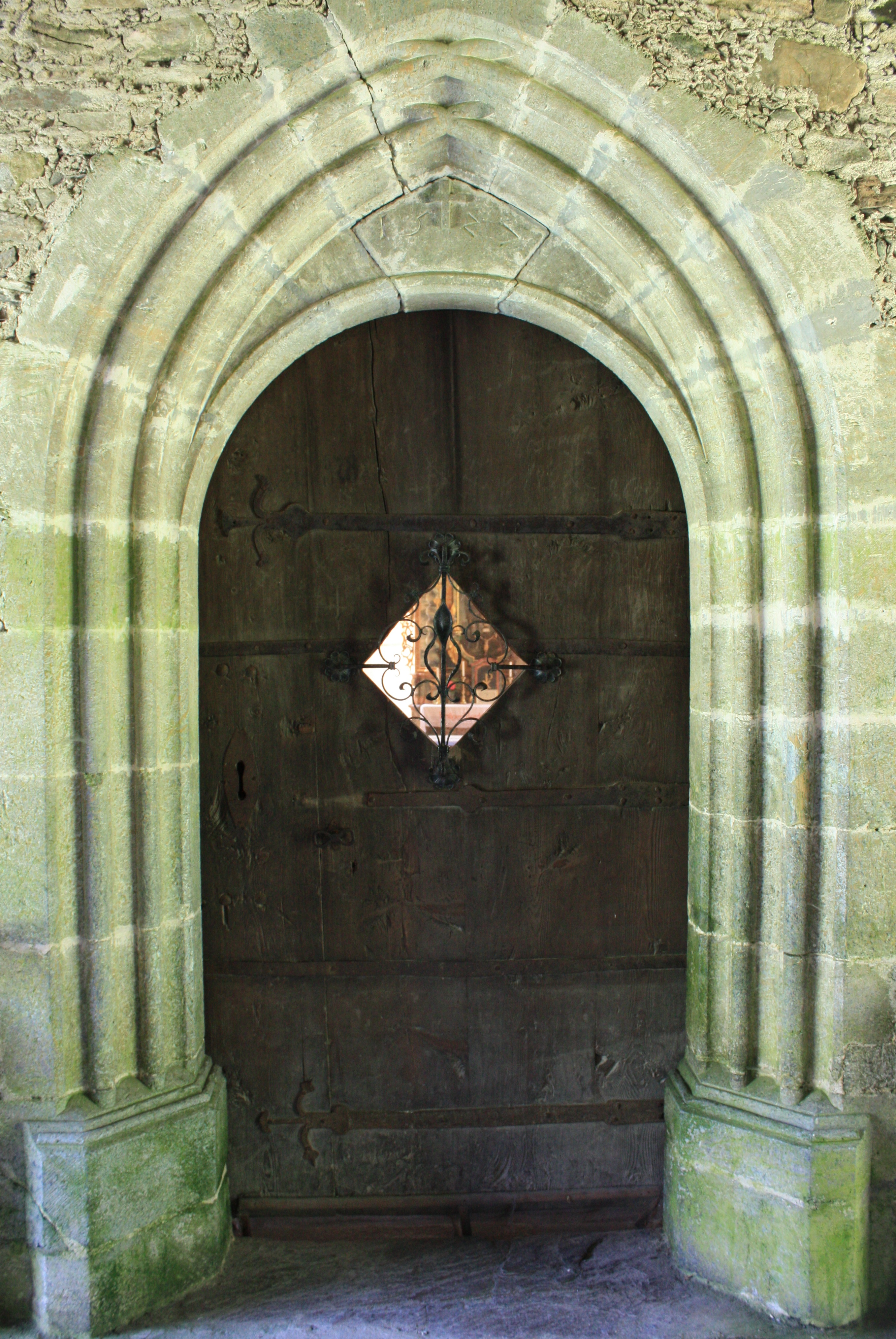 Subsidiary church Saint Martin - Portal Locality: Pockhorn Community:Heiligenblut